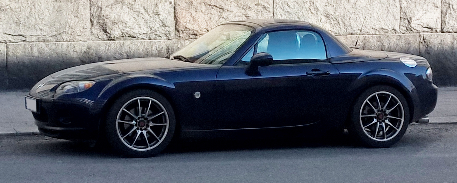 This is a photograph of Mazda MX-5 sports car.